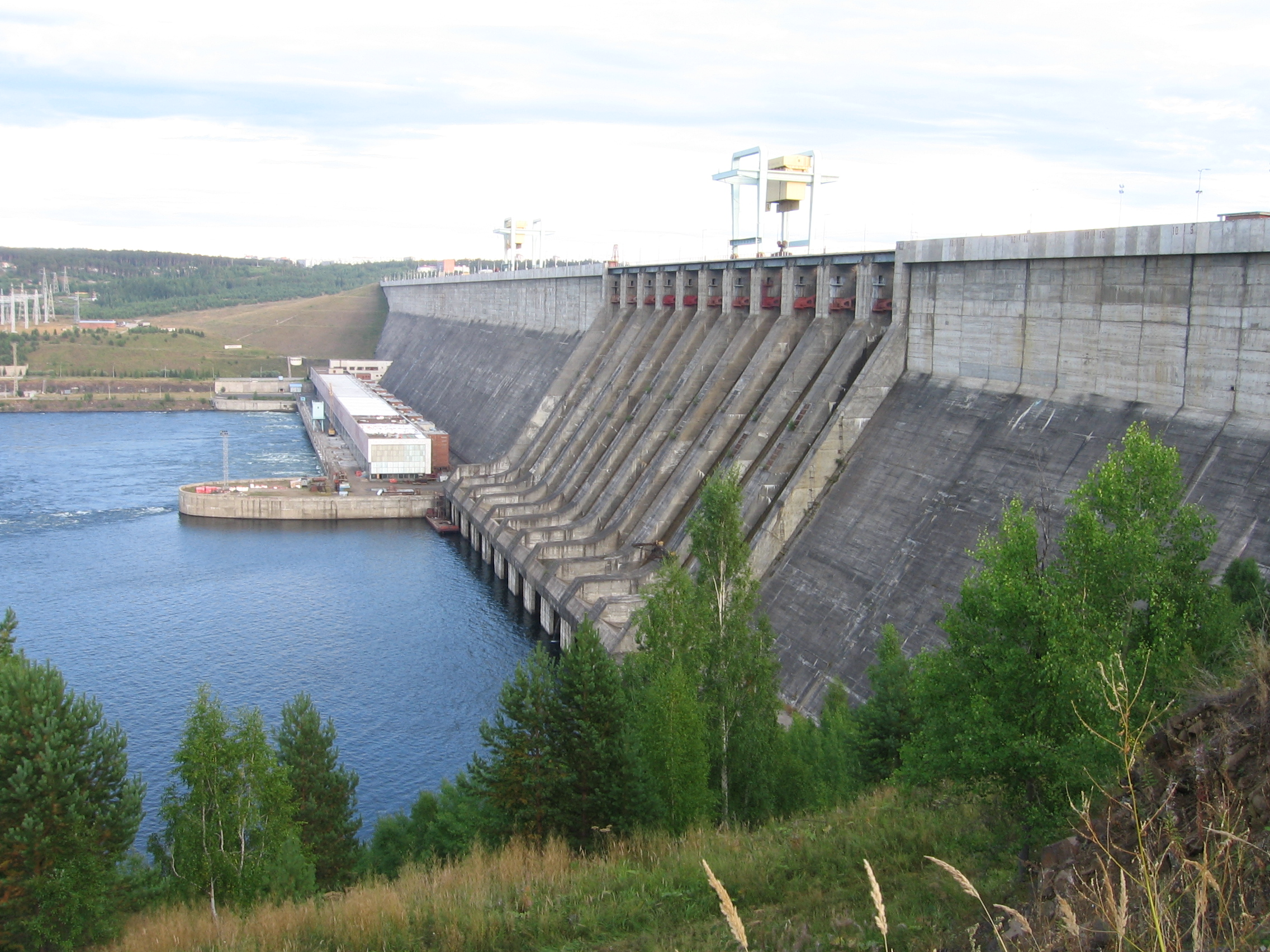 The Ust-Ilimsk Dam.